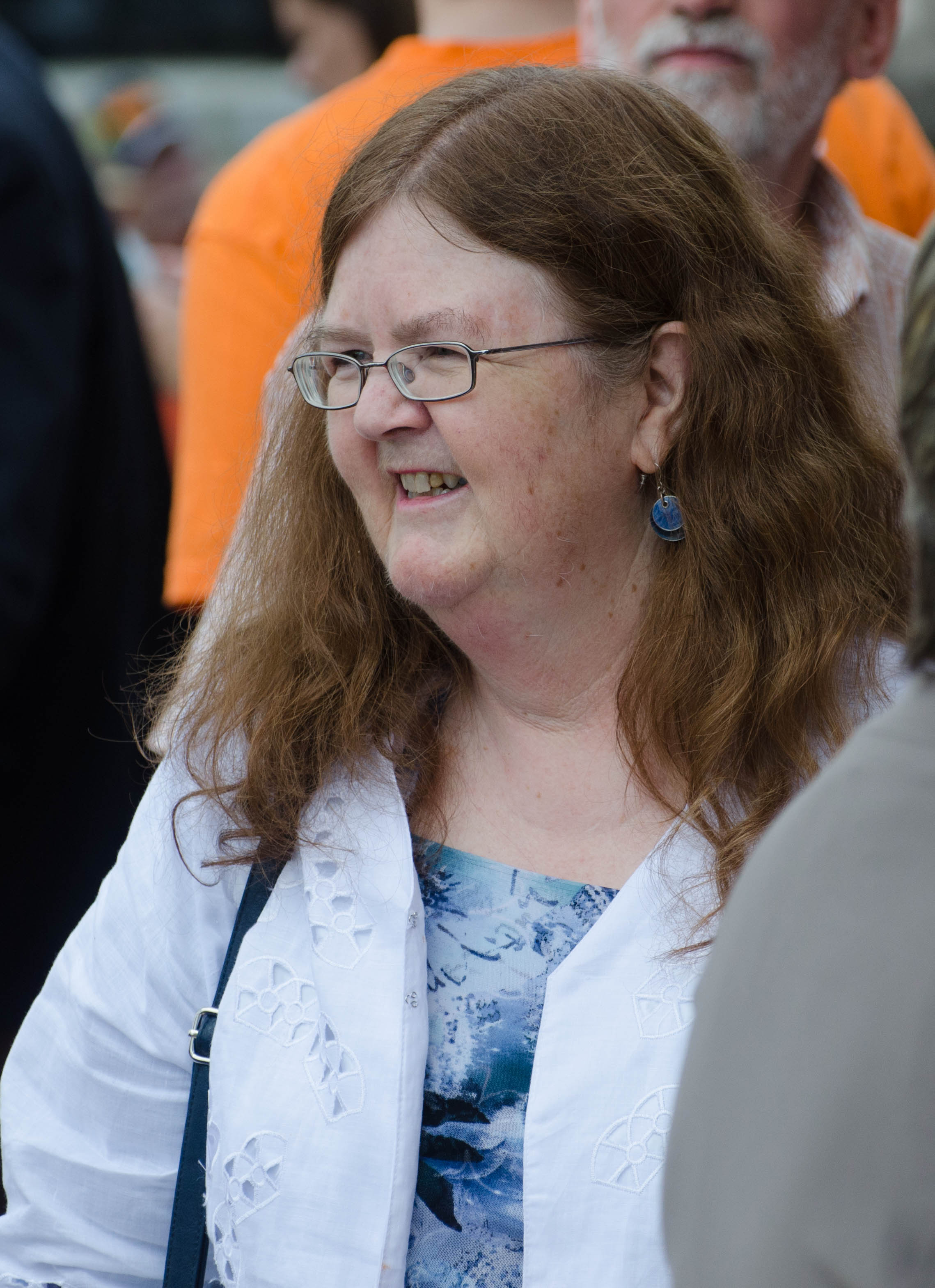 Denise Woollard at the 2015 Alberta Premier/Cabinet swearing-in ceremony, by Connor Mah.